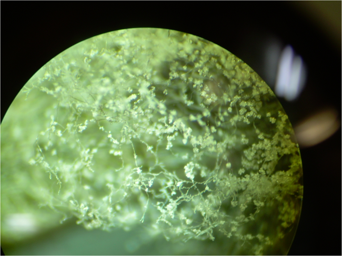 Botrytis cinerea conidiophores magnified 3.5X. Identified using Barnett, H. L. & Hunter, B. B. (1998) Illustrated Genera of Imperfect Fungi. APS Press: St. Paul, MN; pp. 76–7 ISBN 0-89054-192-2. Recovered from zinnia (Zinnia violacea Cav.). Host status confirmed using Farr, D. F., Bills, G. F., Chamuris, G. P., & Rossman, A. Y. (1995) Fungi on Plants and Plant Products in the United States. APS Press: St. Paul, MN; pp. 89–90 ISBN 0-89054-099-3.